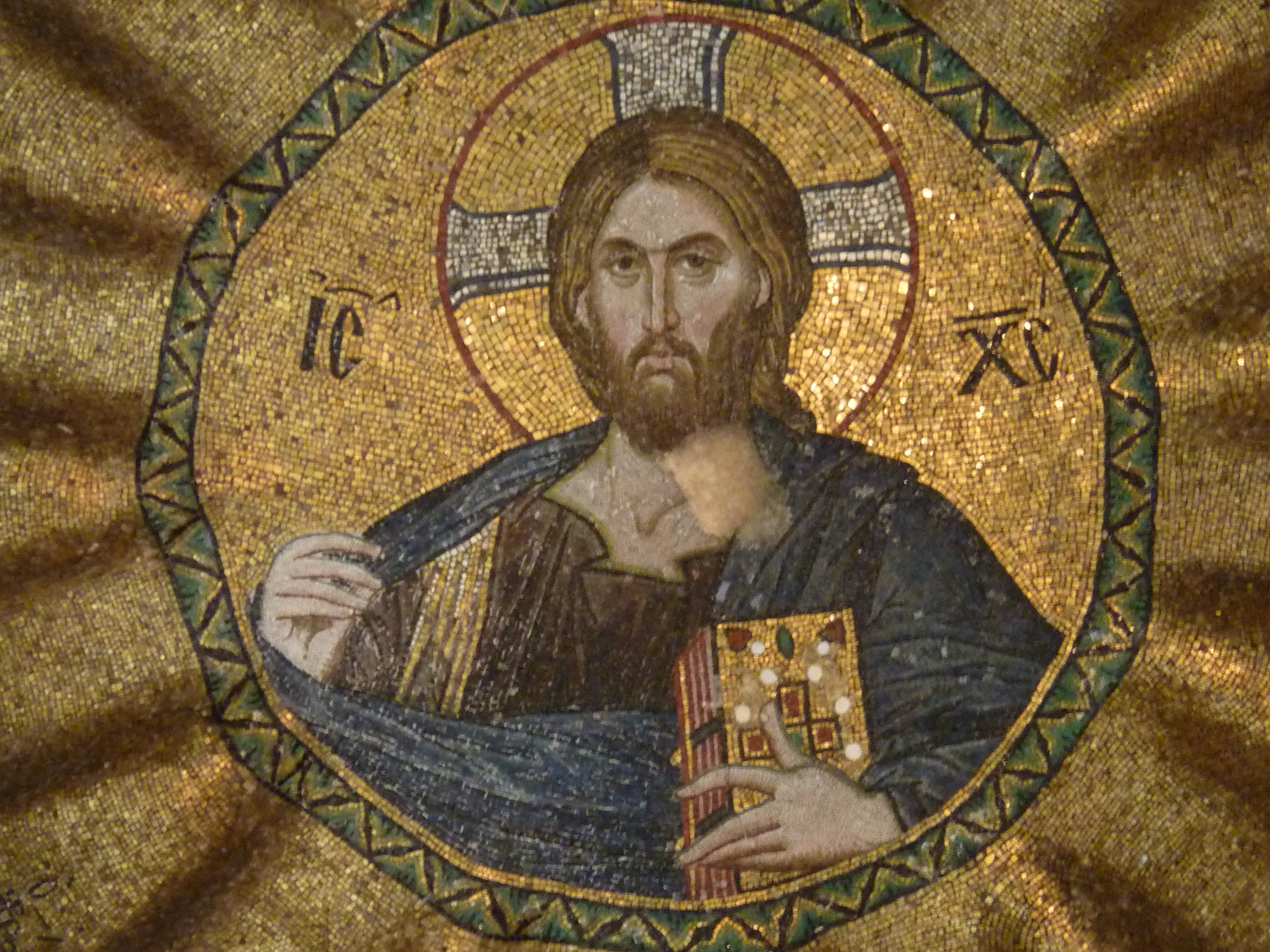 Pammakaristos Church (Fethiye Museum)